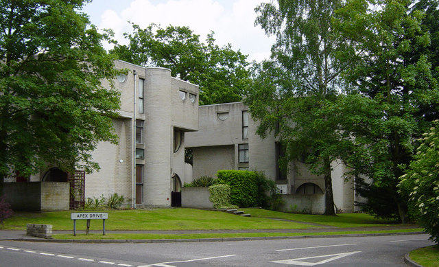 Apex Drive, Frimley The Apex Drive development was designed by Lawrence Abbot and built by the Apex Society, founded in 1965, to provide 'affordable housing in Greater London and the Home Counties'. These unusual properties were built from grey brick and white mortar which contains sparkly quartz. Each block is a square, divided by a kind of flattened S-shaped wall which produces an interesting internal curved wall for each apartment, ending with a curved window where it meets the outside wall. The guttering is hidden within the fabric of the walls.